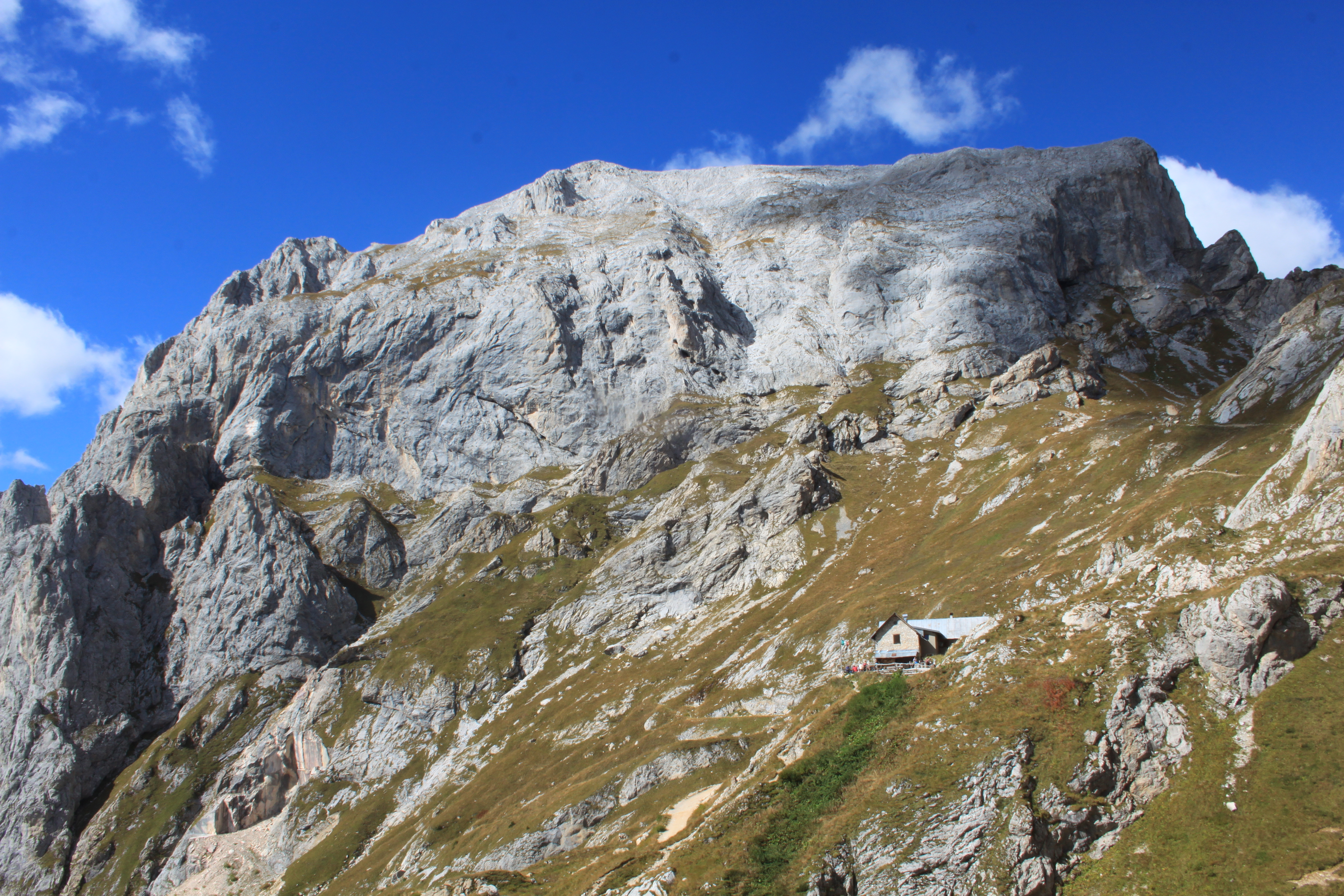 Mount Peralba (2,694m) in Carnic Alps, Italy. From above Val Sesis, south-eastern side.